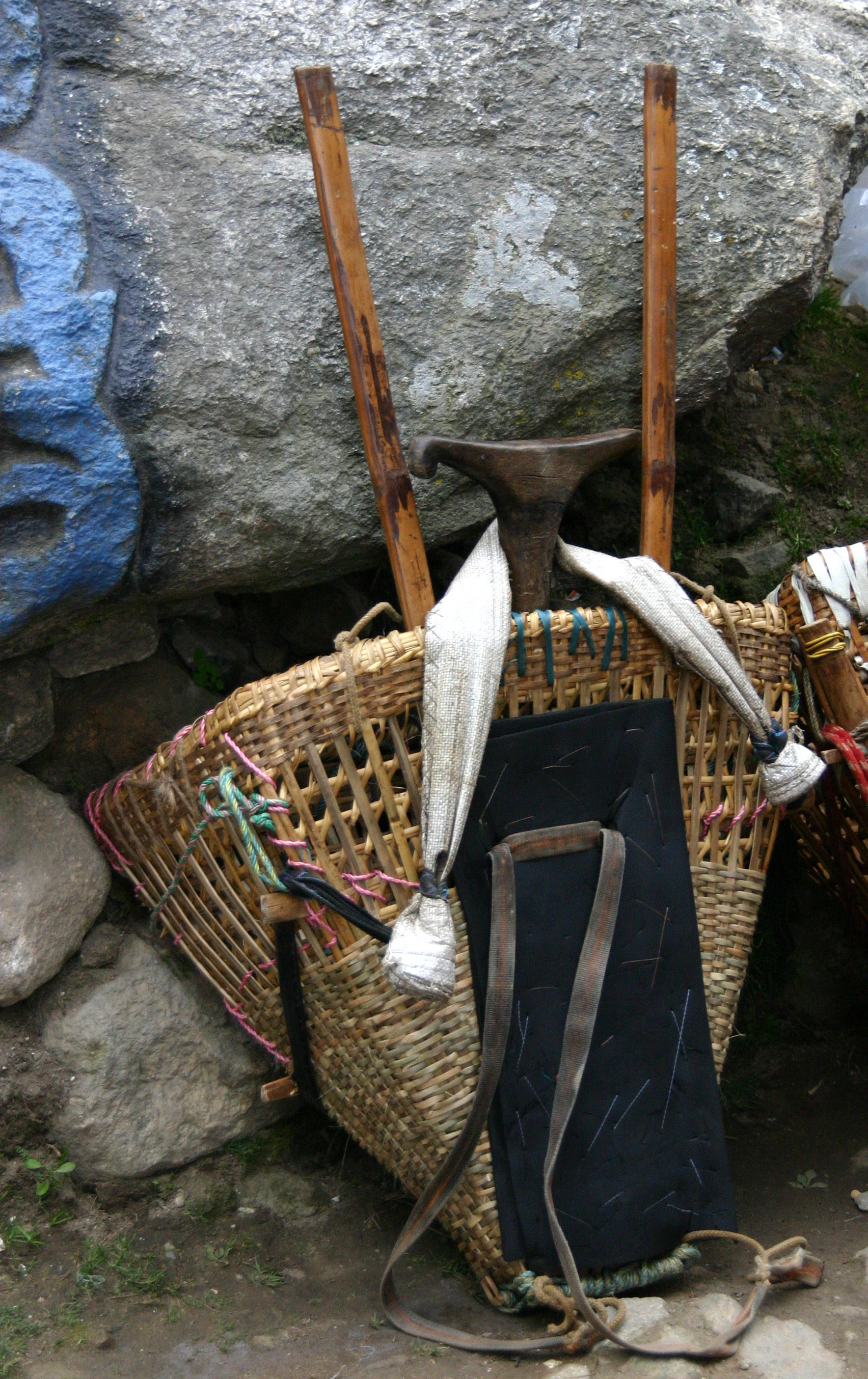 Namche Bazaar